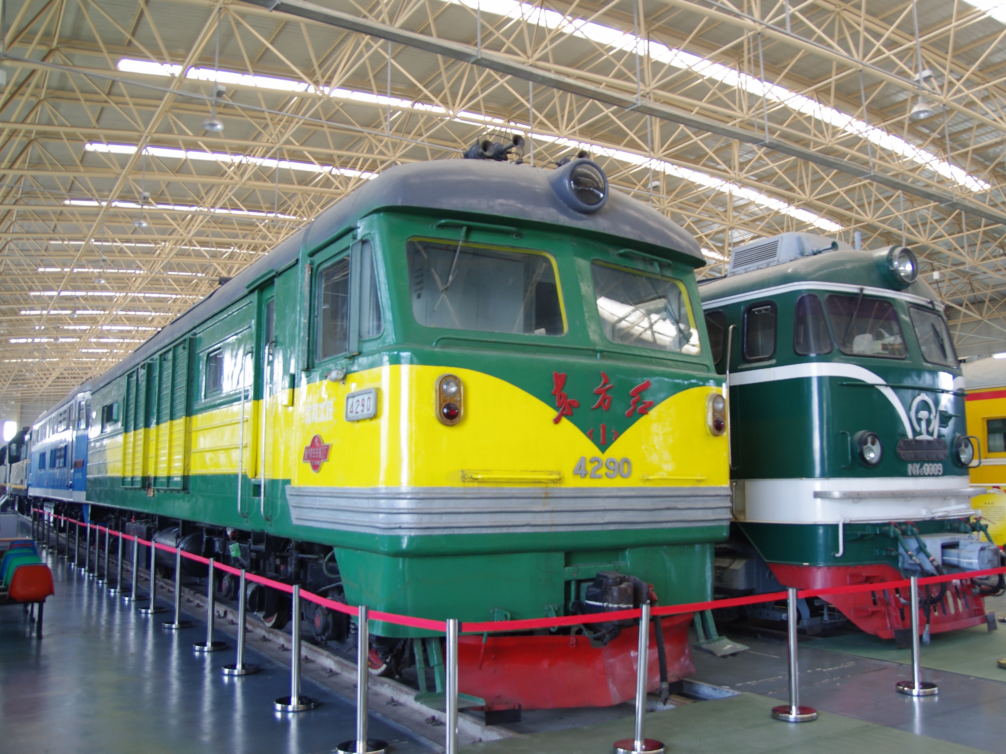 China Railways DFH1 4290 at China Railway Museum